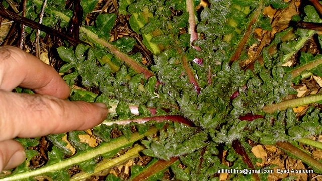 نباتات برية سورية تؤكل